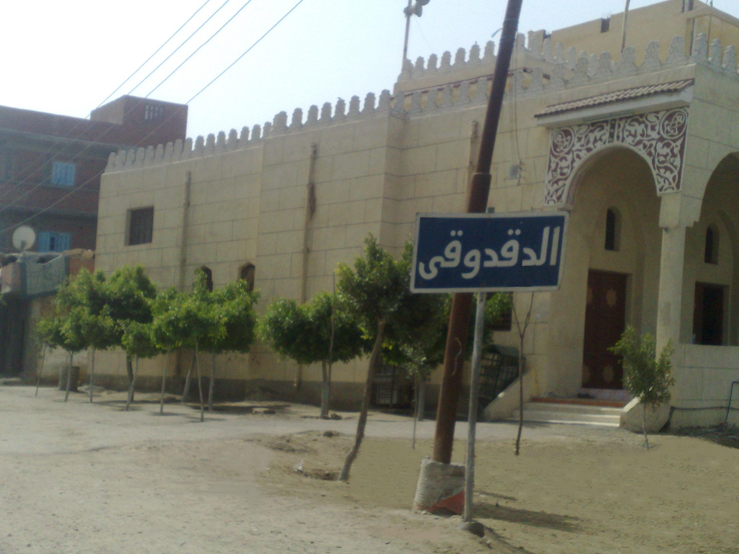 El-Dakdoky Village, Desouk